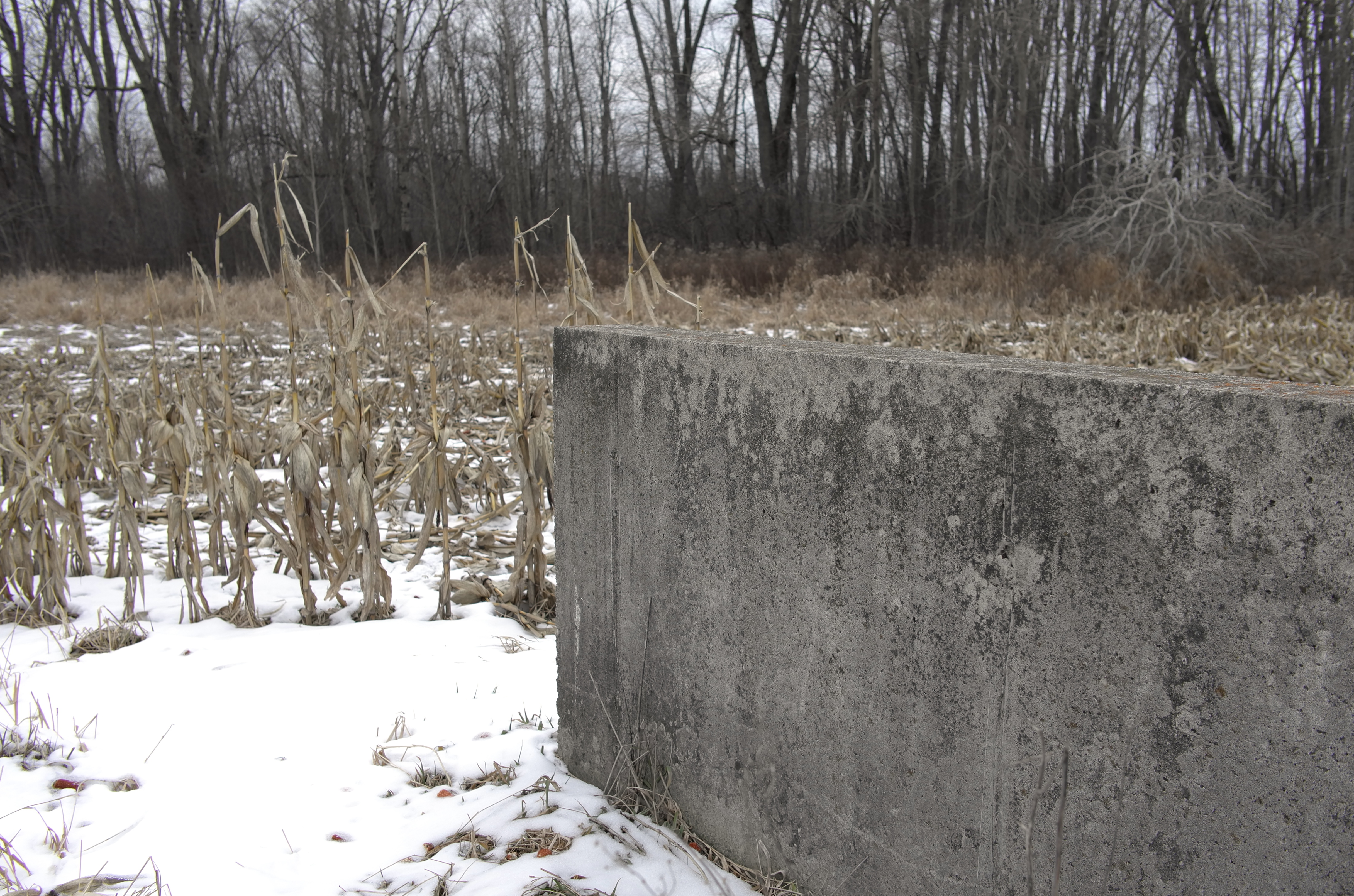 Richard Serra's "Shift" (cont.)